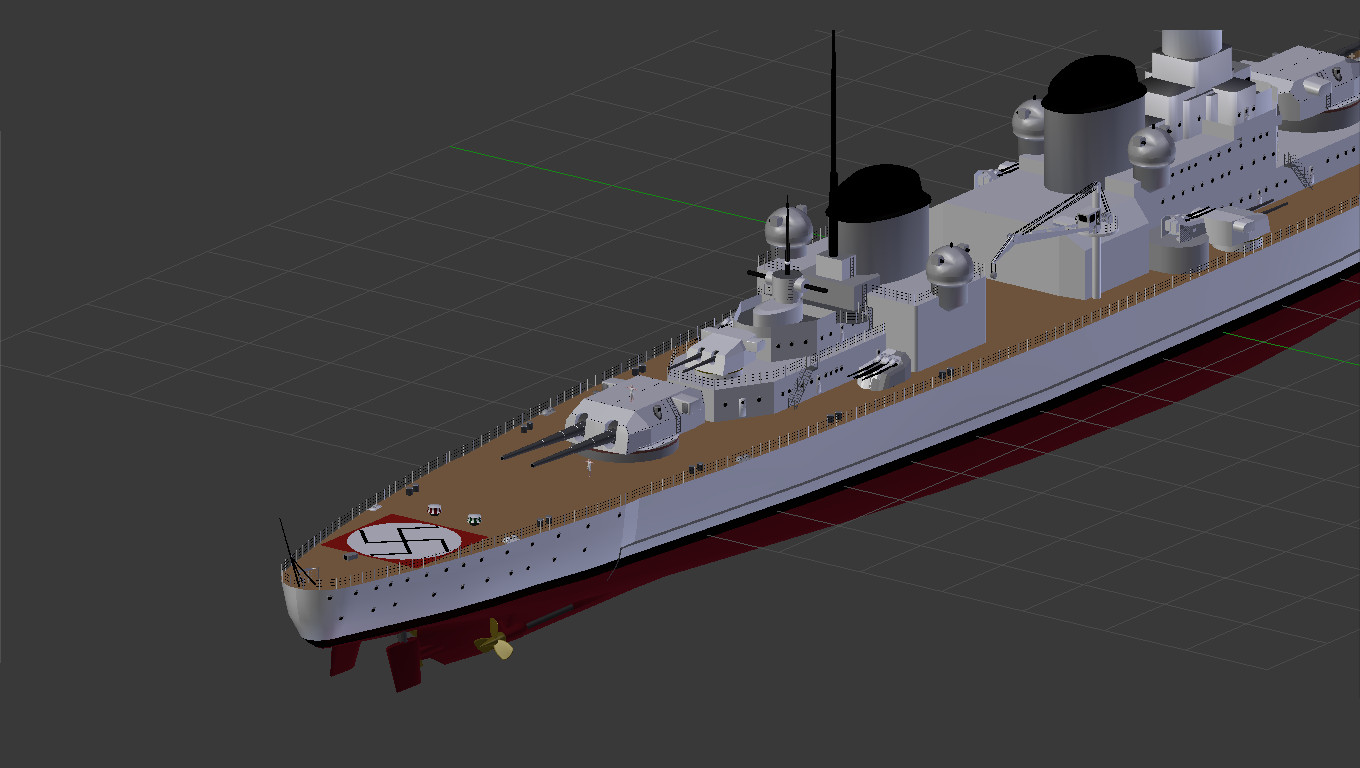 An angled shot of the fantail area to mid ship area of the O class Battle Cruiser 3D model. These ships if built would have been large but fast. They were to combine diesel propulsion for cruising and high pressure turbines to attain speeds around 32 knots.